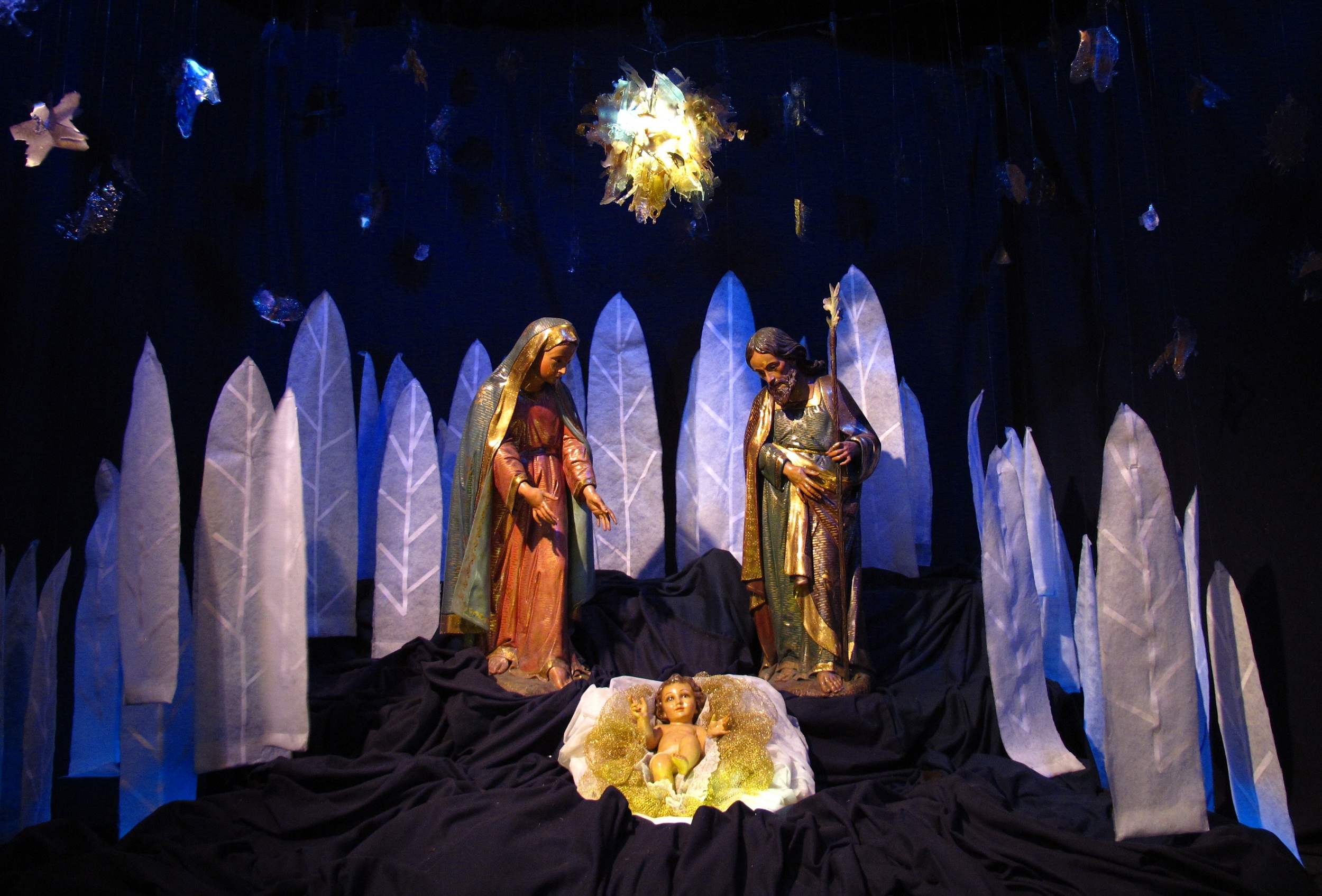 Nativity scene on the Buenos Aires Metropolitan Cathedral.